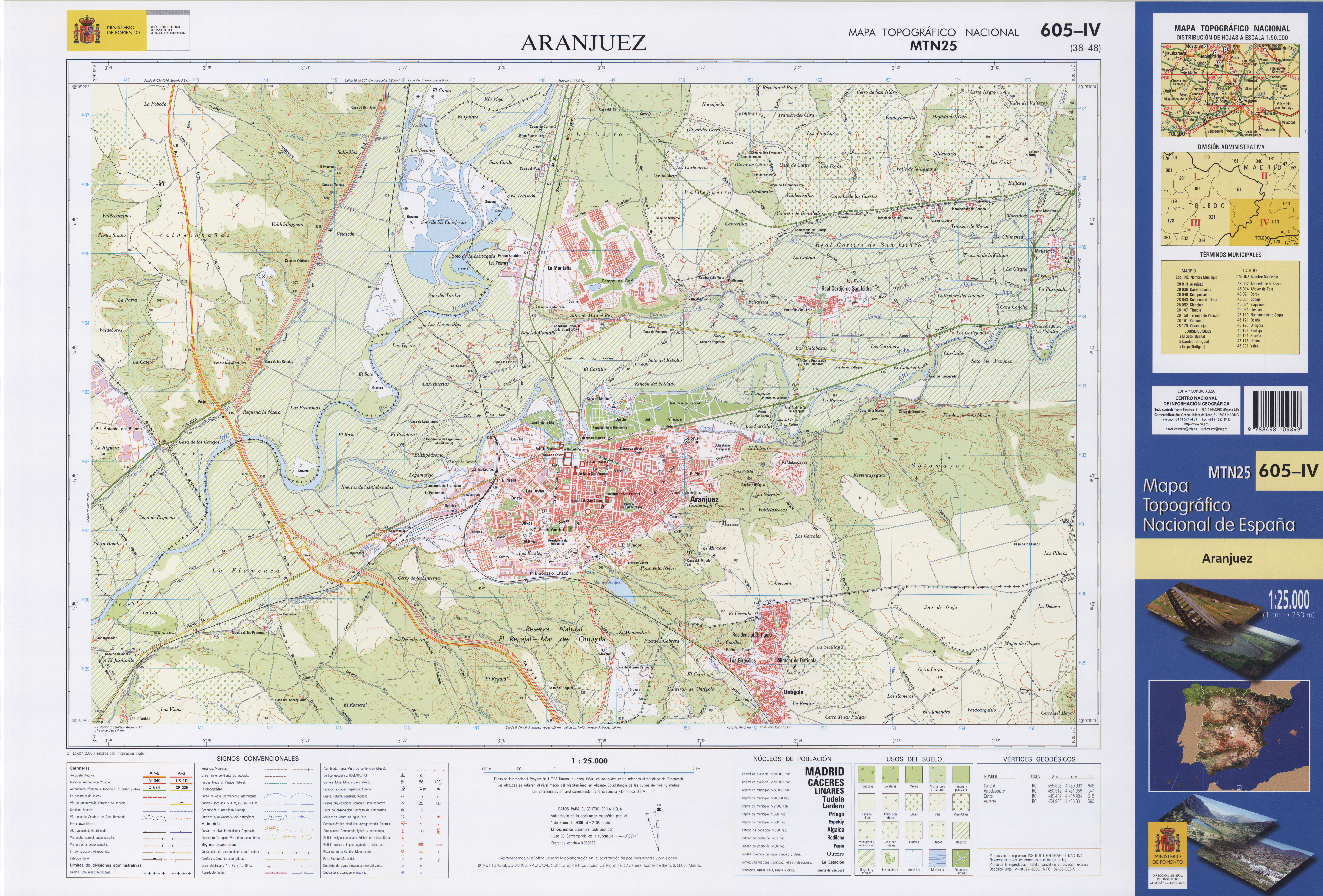 Fragment 0605c4 of the National Topographic Map of Spain in 2006 at a scale of 1:25000 printed and scanned with a resolution of 250 ppi. It shows Aranjuez.